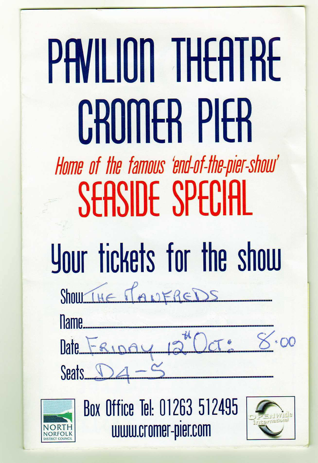 A Scanned image of a Ticket for the Pavilion Theatre on Cromer Pier. Date: Friday 12 October 2007 Time: 8.00pm Show: The ManFreds.